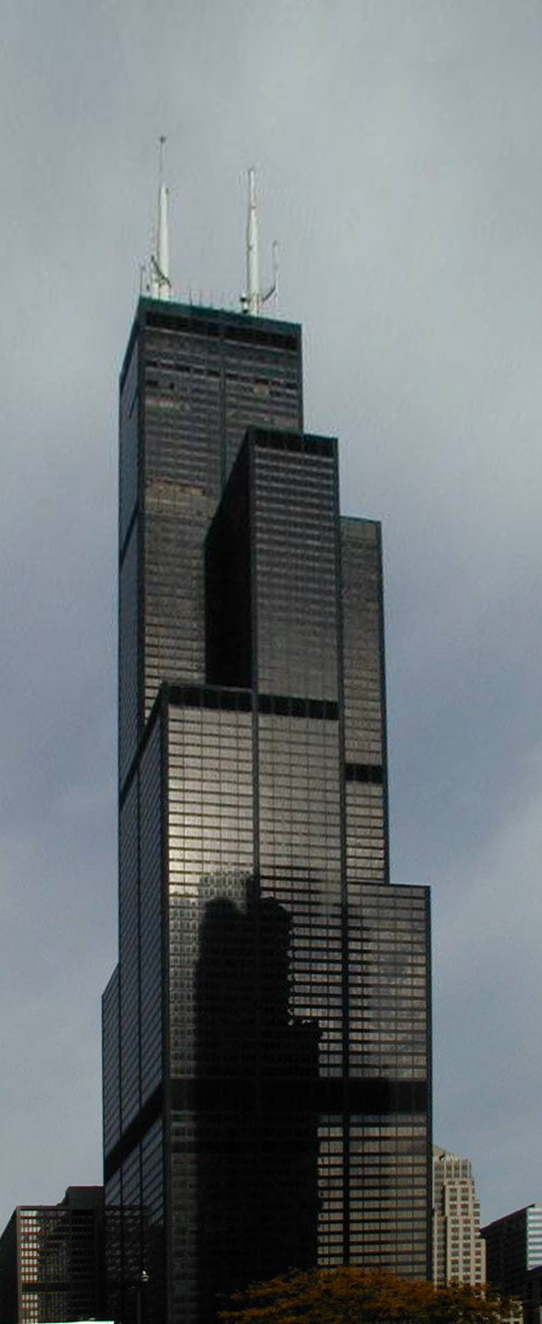 orthogonal, based on en::image:SearsTower.jpg, cropped. Category:Images of Chicago, Illinois